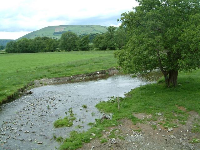 Afon Iwrch at Pont Maesmochnant Photo taken from road bridge on B4580 while on Barmouth to Yarmouth cycle ride.